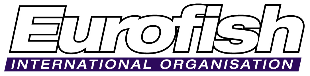 Eurofish logo